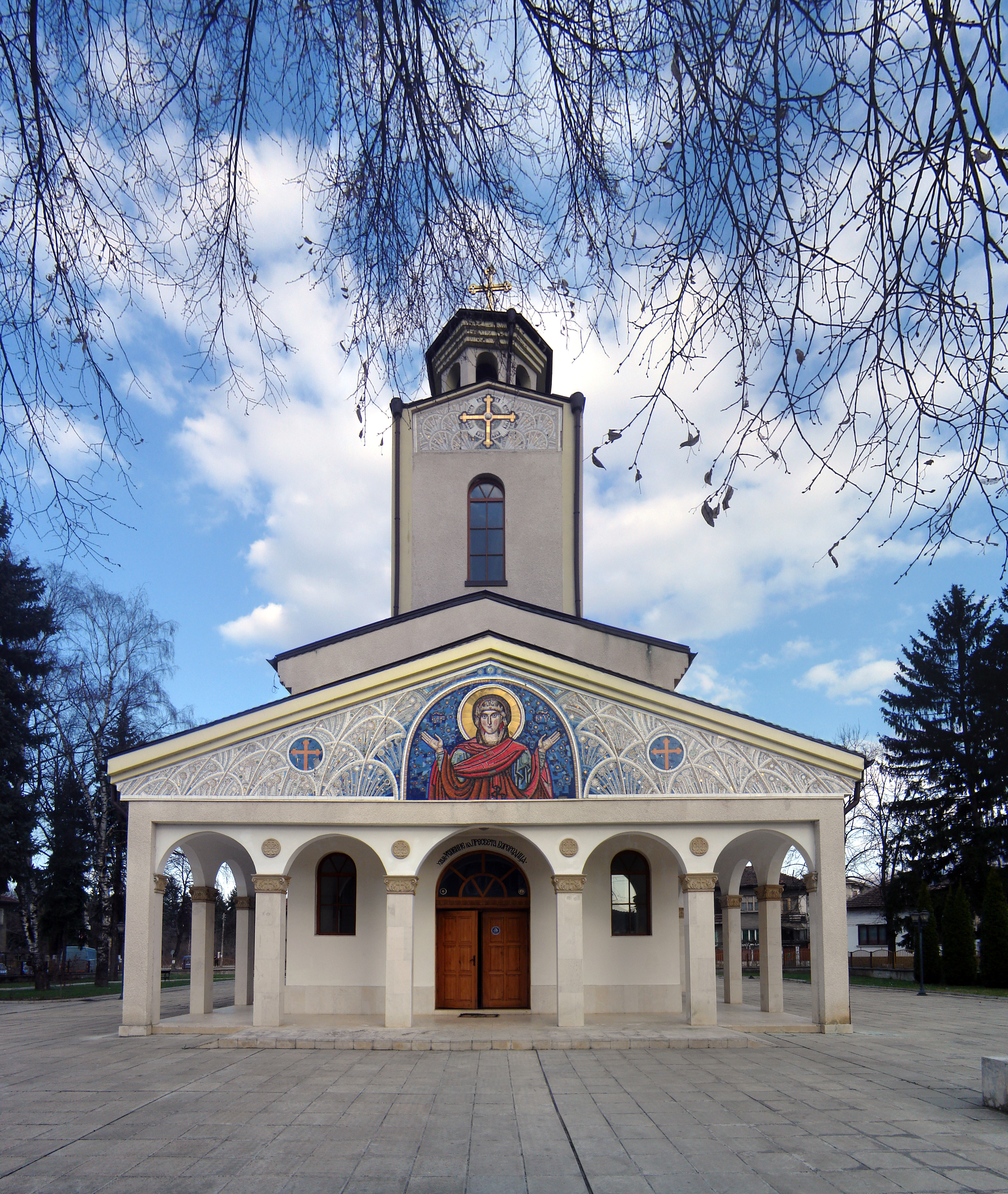 The church "Dormition of the Mother of God church" in Botevgrad, Bulgaria.